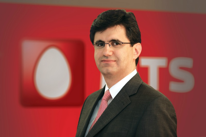 Ralf Yirikyan